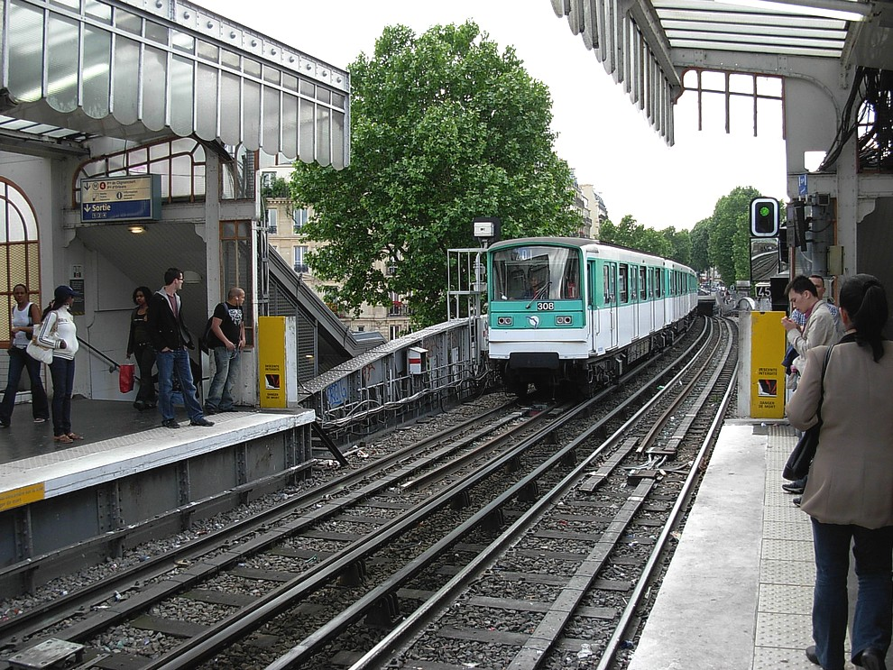 Train aproaching platform of the Barbes-Rochechouart station of metro in Paris (Line2)